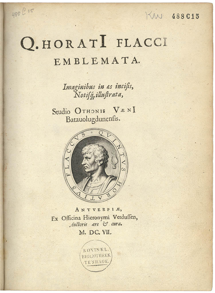 Titlepage of the Emblemata Horatiana by Otto van Veen, published in Antwerp in 1607 by Hieronymus Verdussen